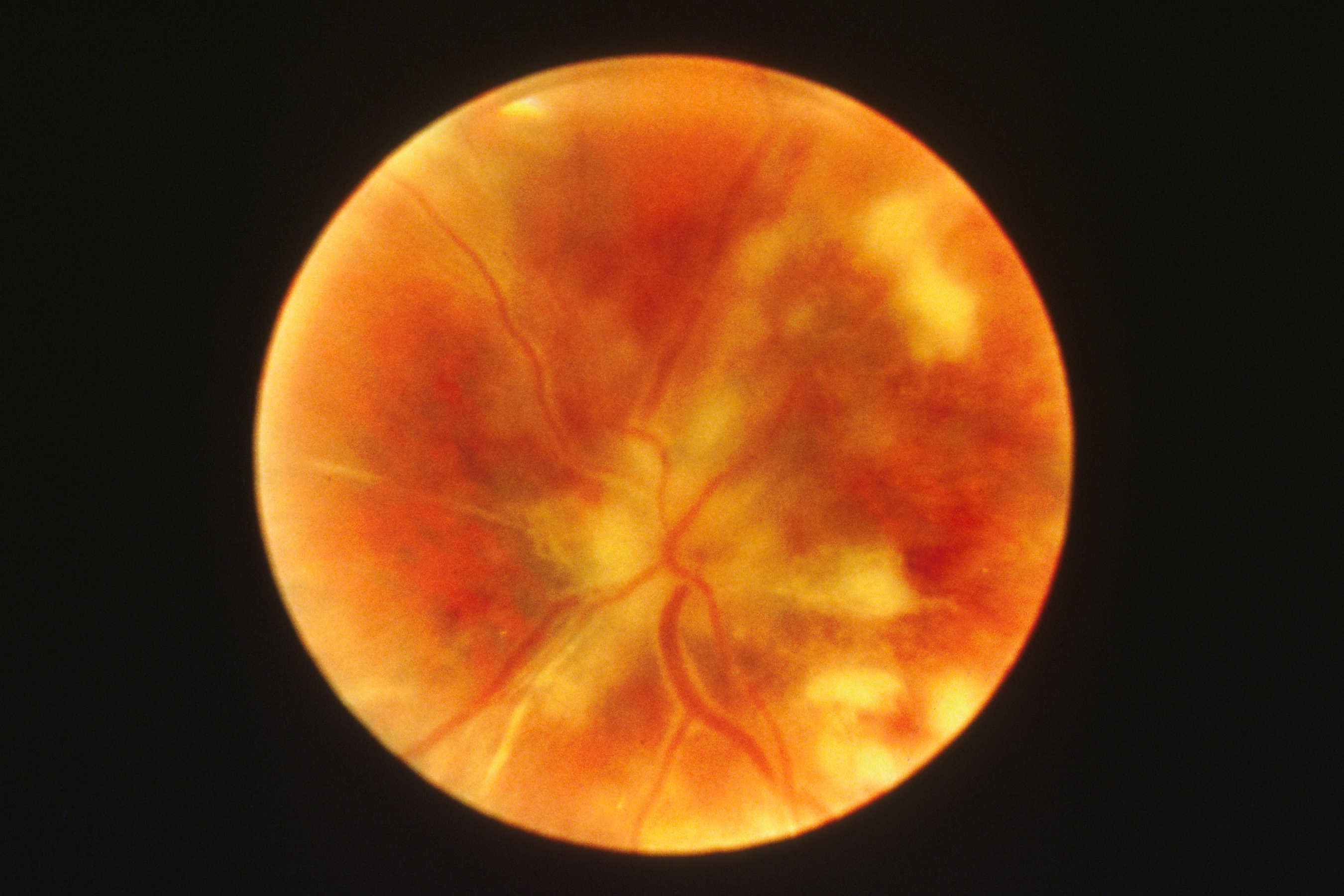 Photograph taken of the back of the eye of an AIDS patient with chorioretinitis, which is an inflammation of the retina and choroid (thin pigmented vascular coat of the eye).